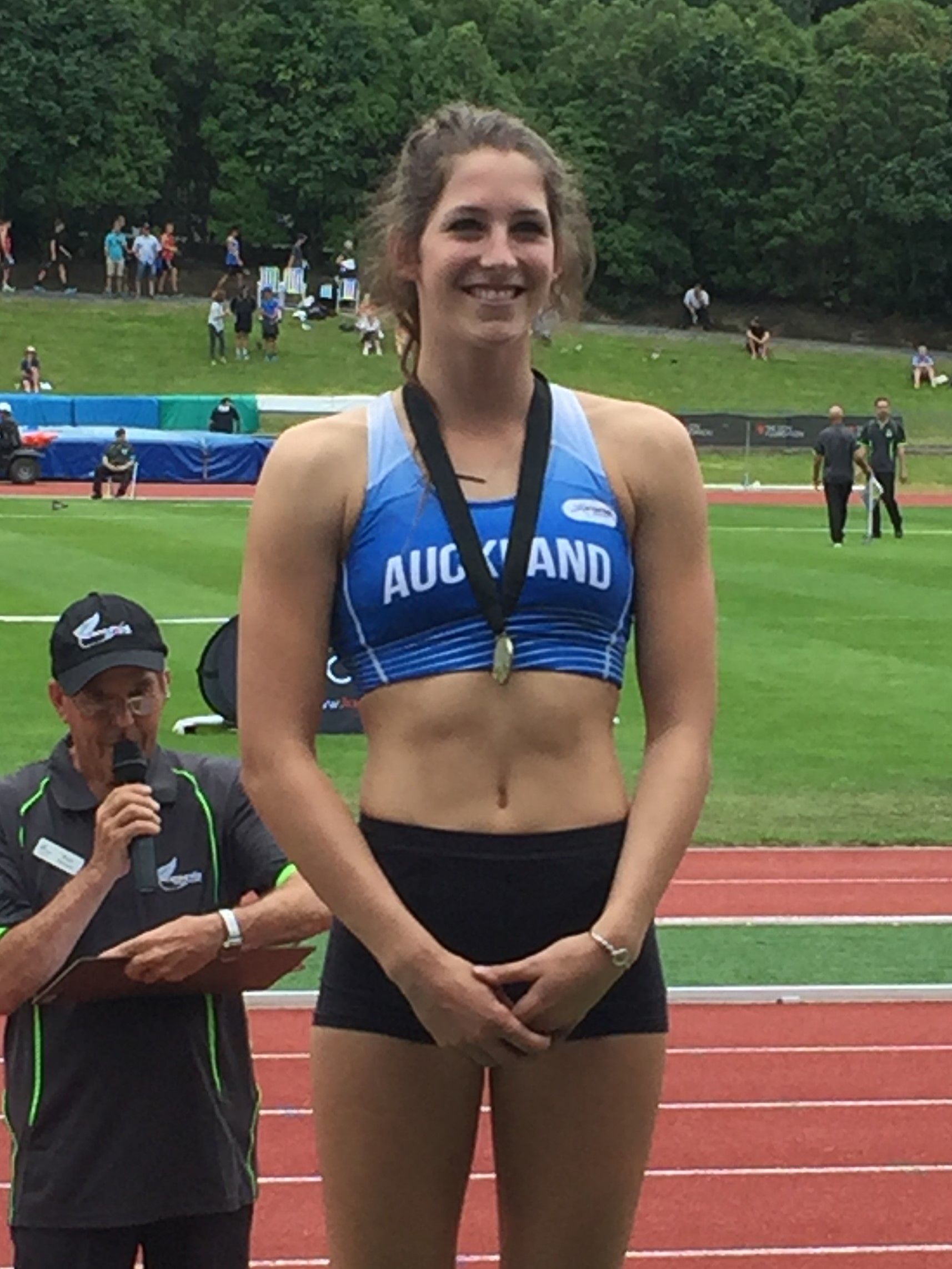 At Caledonian Athletic Ground in Dunedin, on 5 March 2016, after clearing 4.80m.